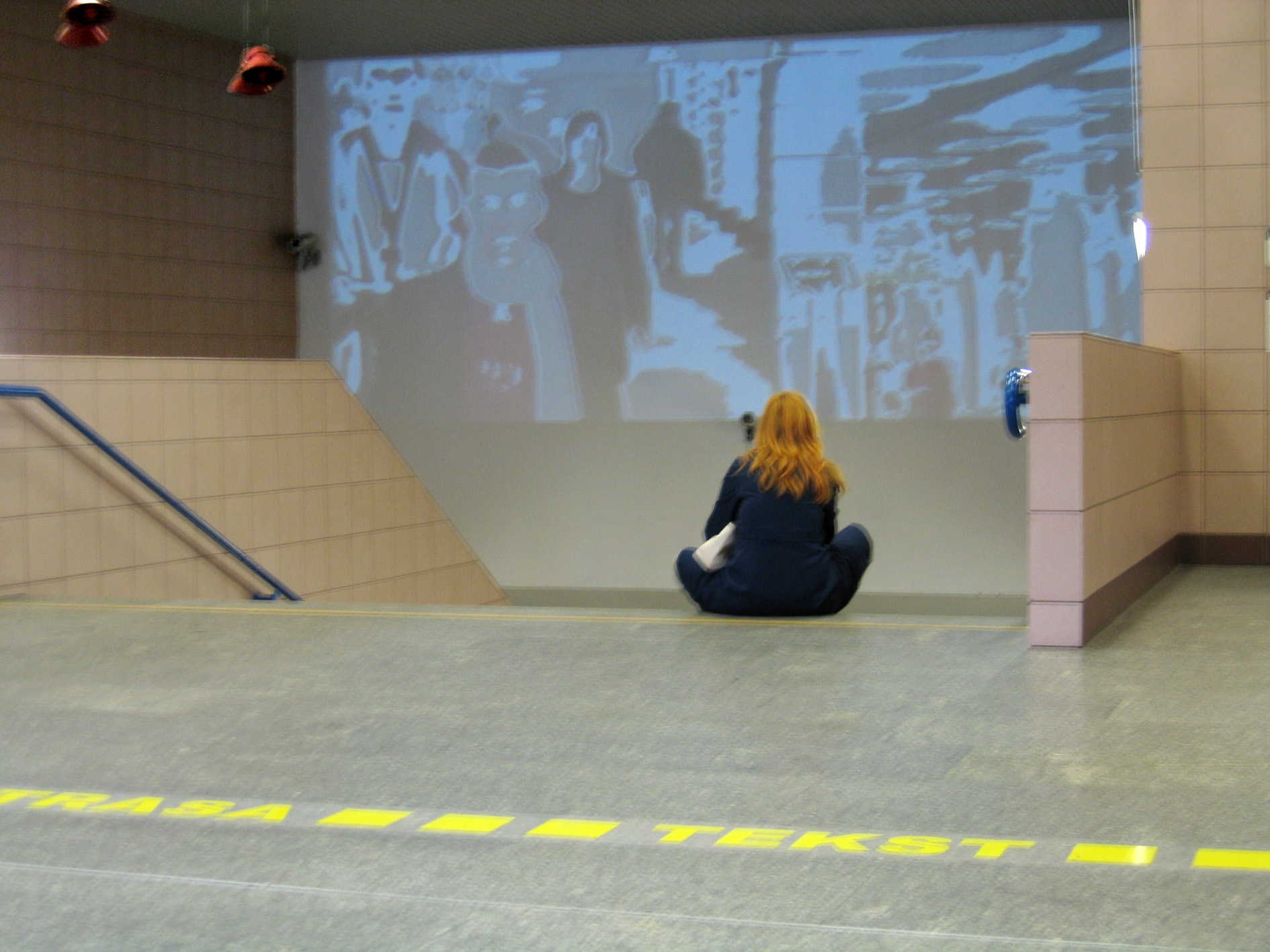 TRASA-Installation view in Warsaw